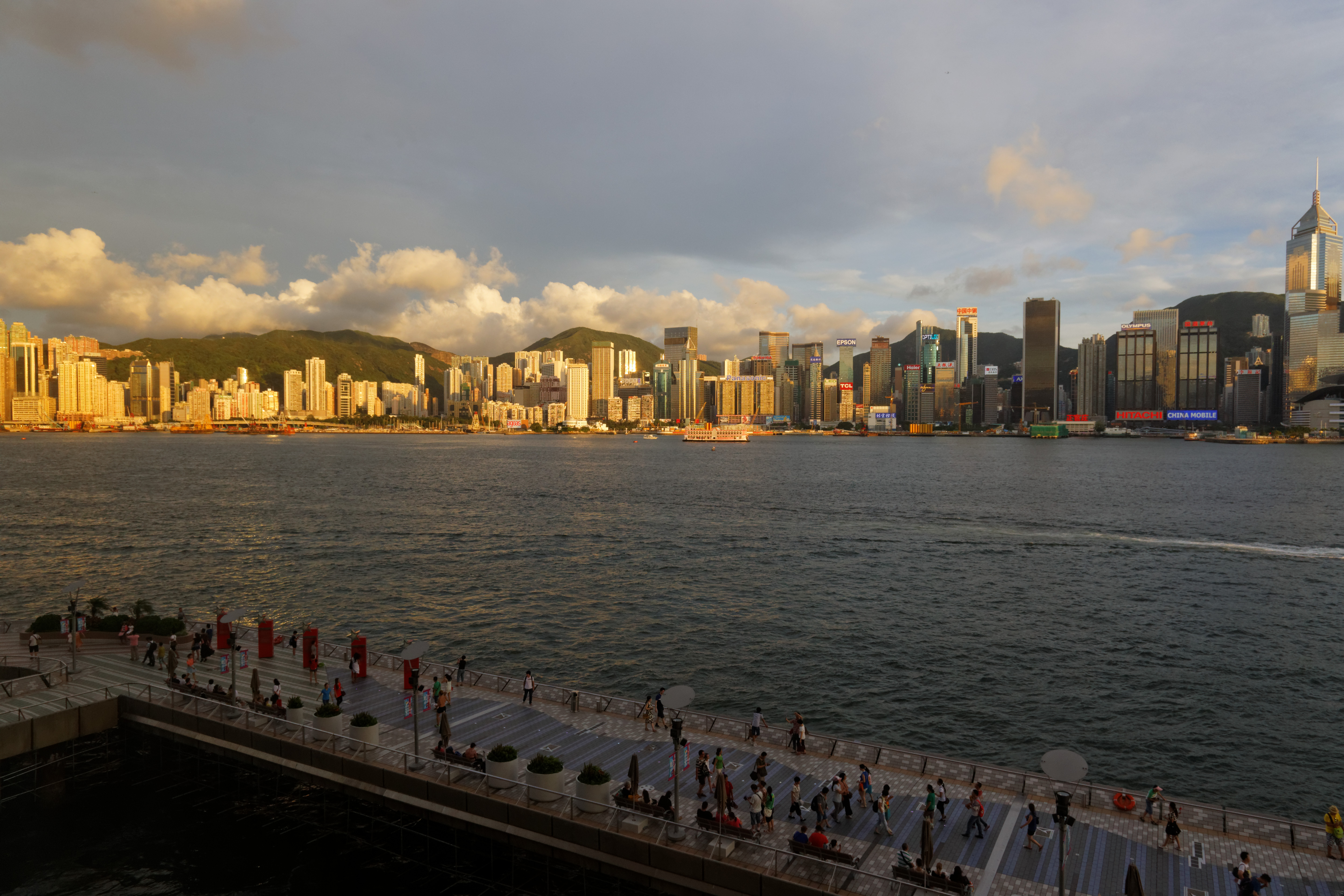 sunset